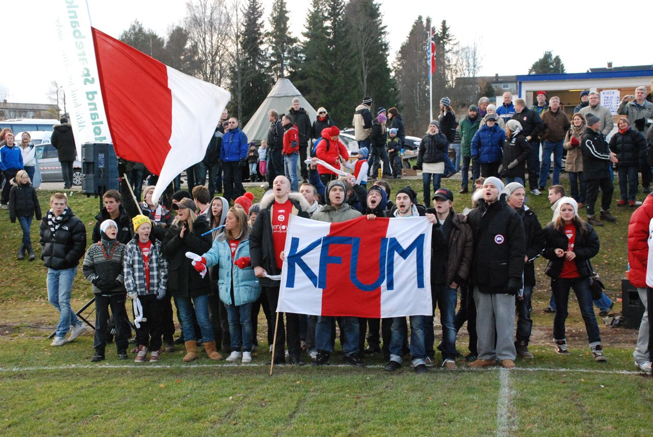 Supporters of KFUM Oslo